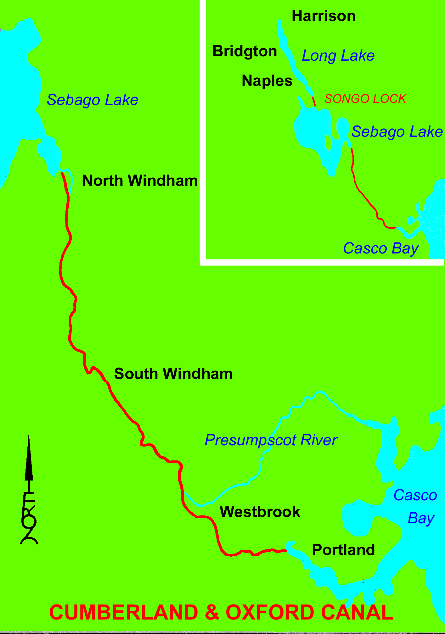 Map of the Cumberland and Oxford Canal (19th century Maine, United States)